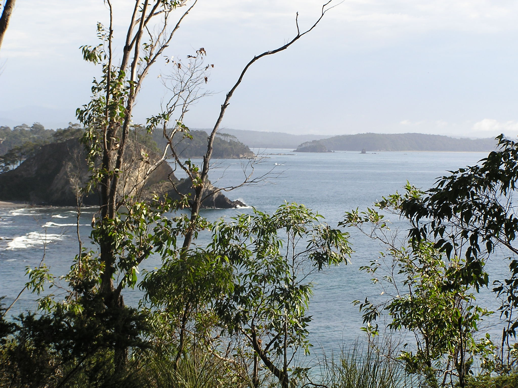 Batemans Bay, April 2005; looking into the bay from the south.